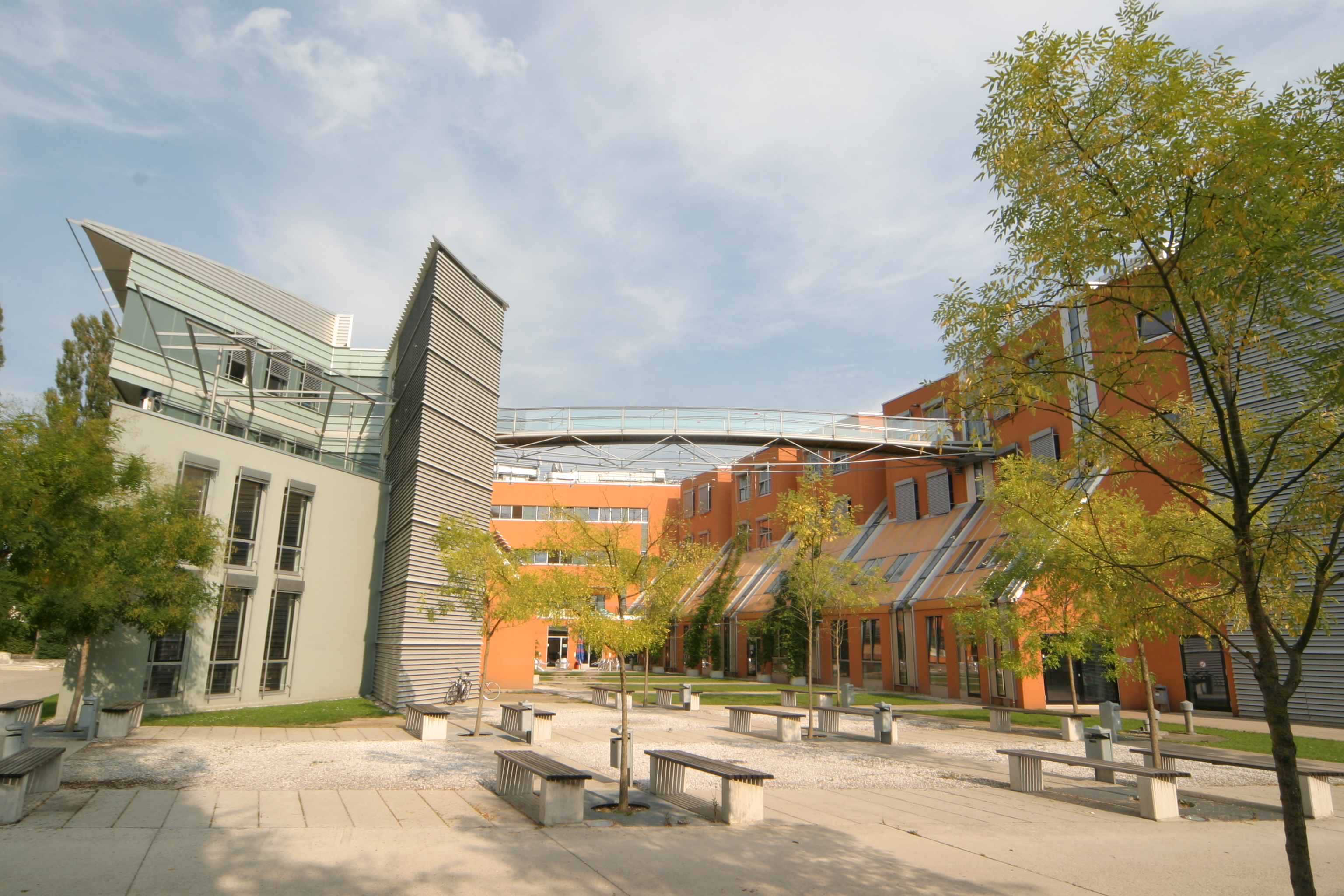 Inffeldgasse 10 - Graz University of Technology